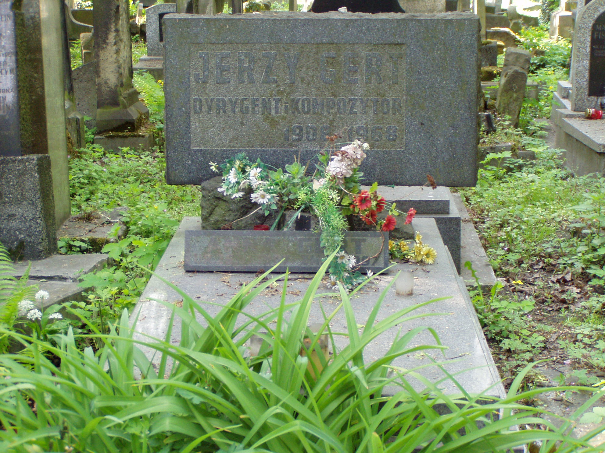 Grave of Jerzy Gert